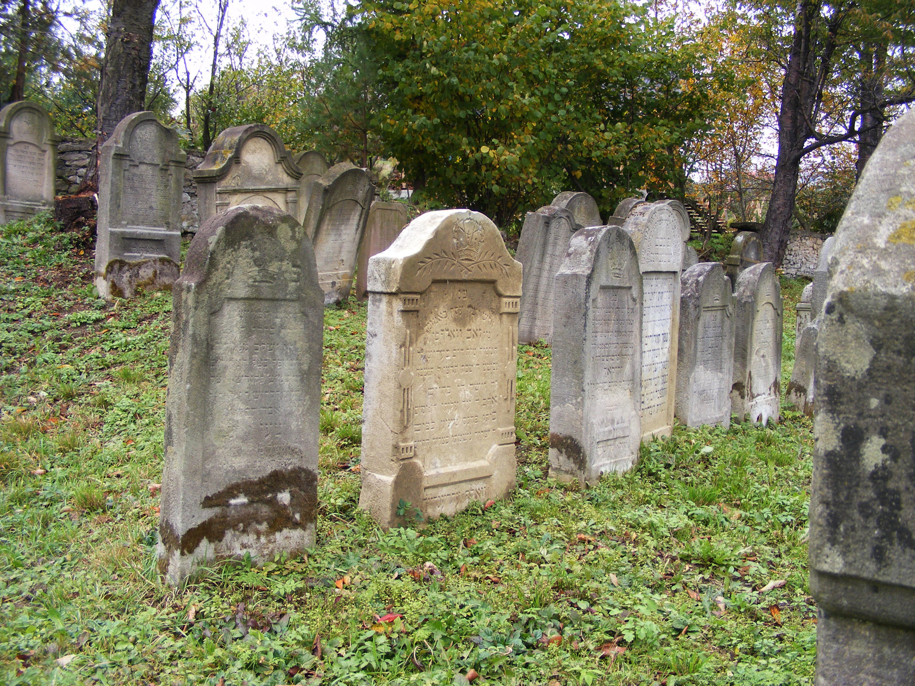 Jewish cemetery in Dukla